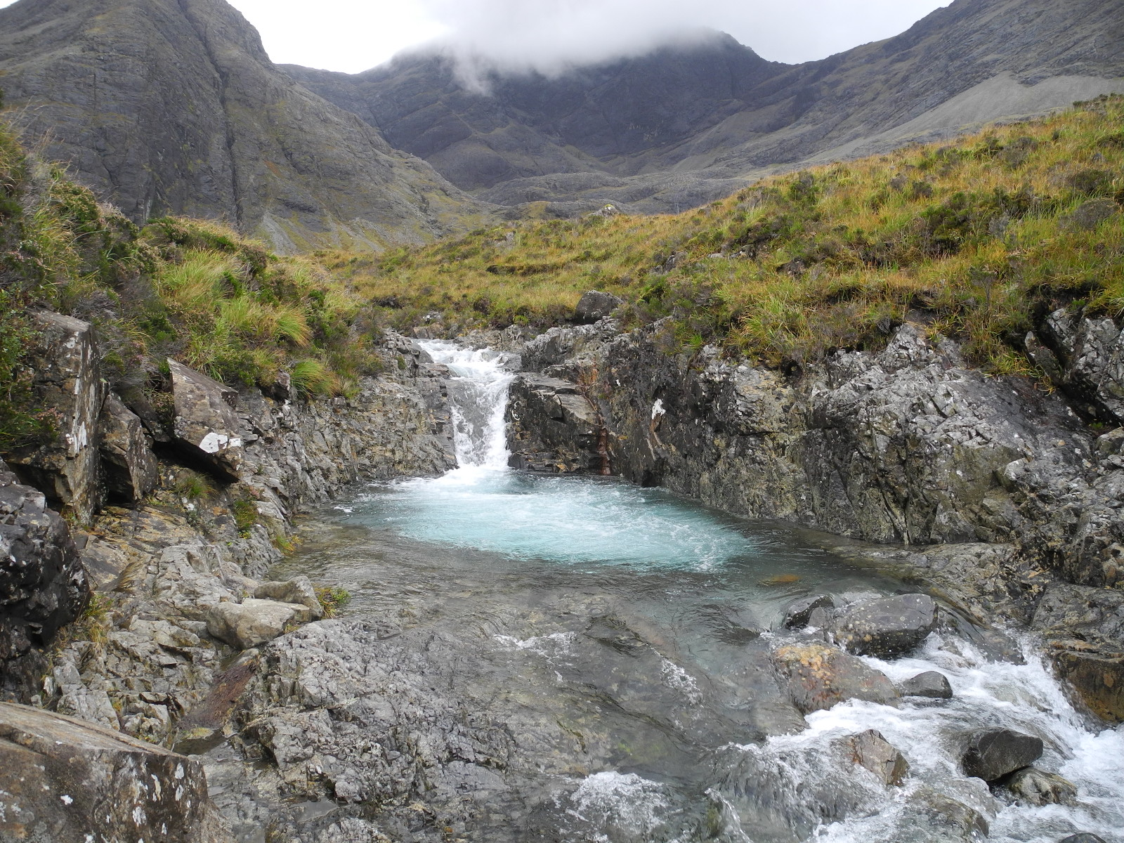 Facing upstream. (I believe the mountains in the background are Bruach na Frithe and Sgùrr na Banachdaich, but this needs to be confirmed.)